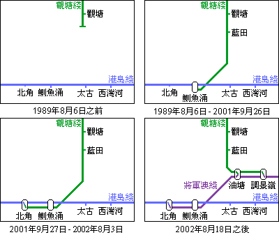 The aligment reformation of MTR, Hong Kong metro system. *Chinese version.